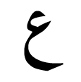 Letter ʿayn of the arabic abjad